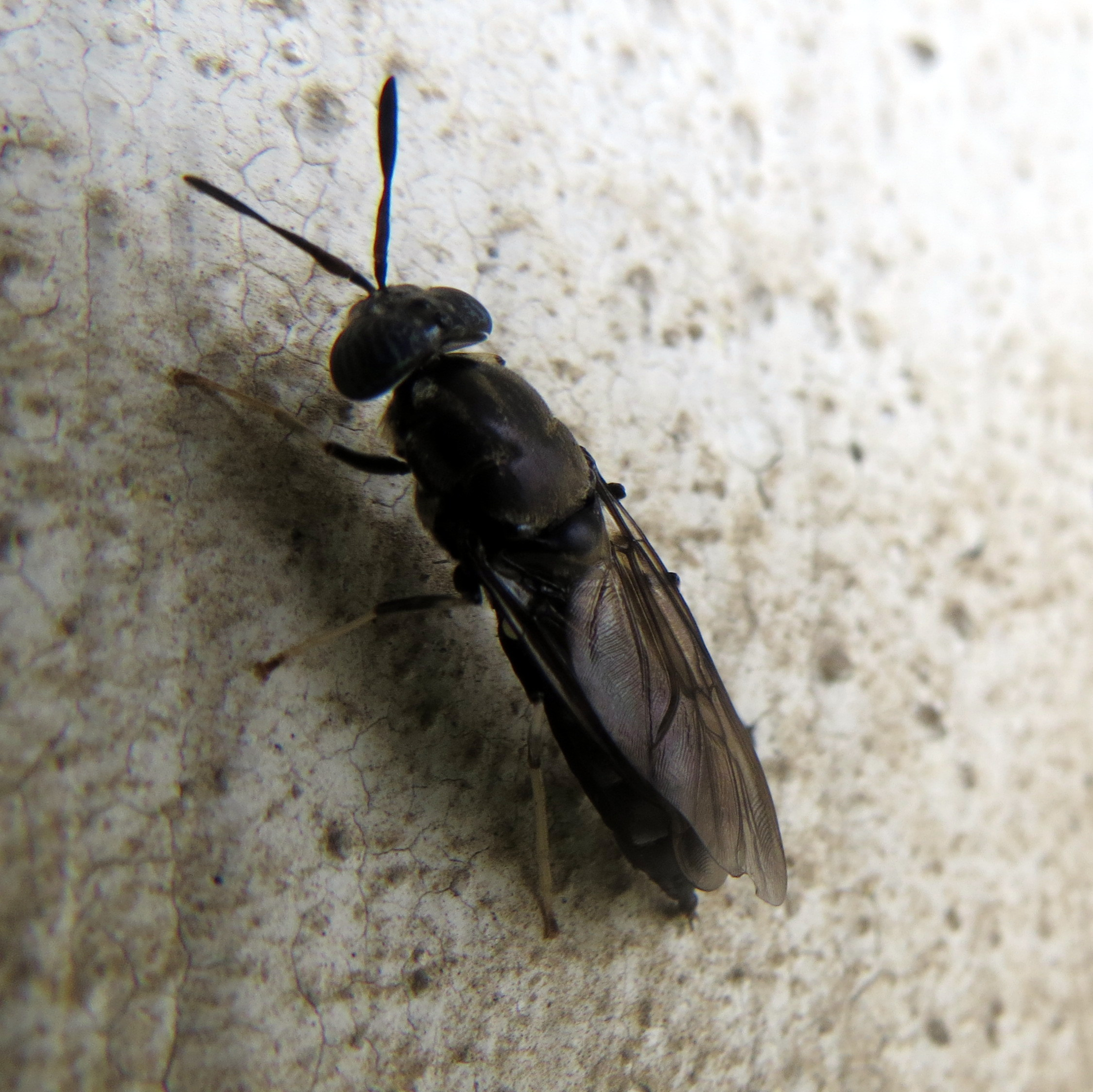 Hermetia Illucens / Adult Black Soldier Fly in Malaysia